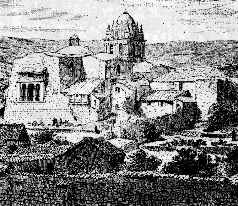 Drawing made by Ephraim George Squier published in his book Peru; Incidents of Travel and Exploration in the Land of the Incas (1877).